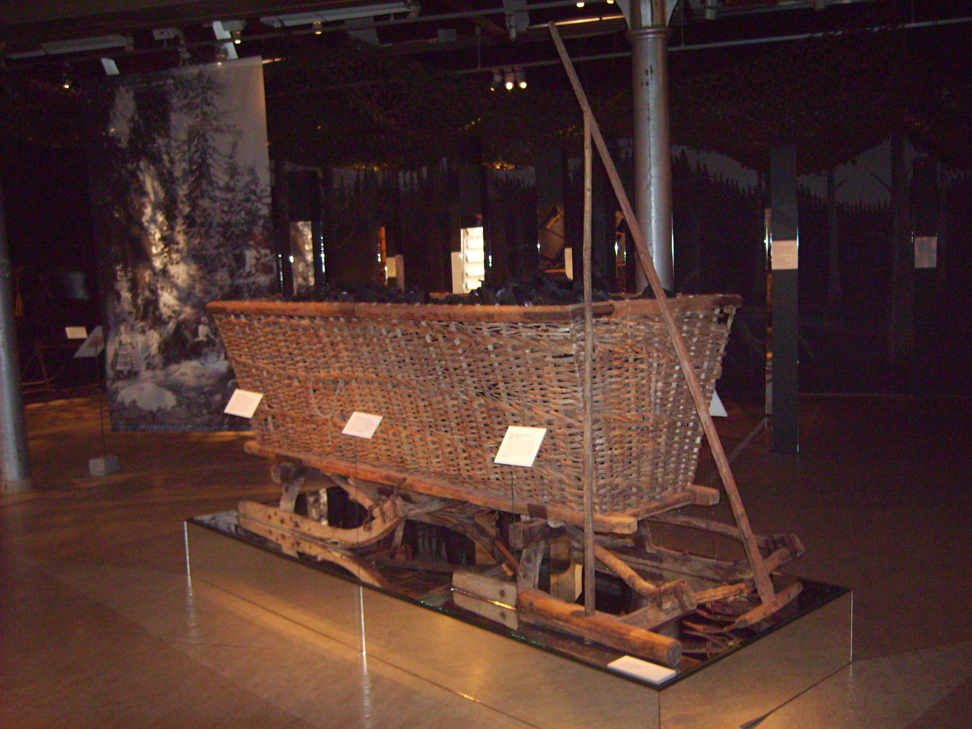 Photo by Harri Blomberg.